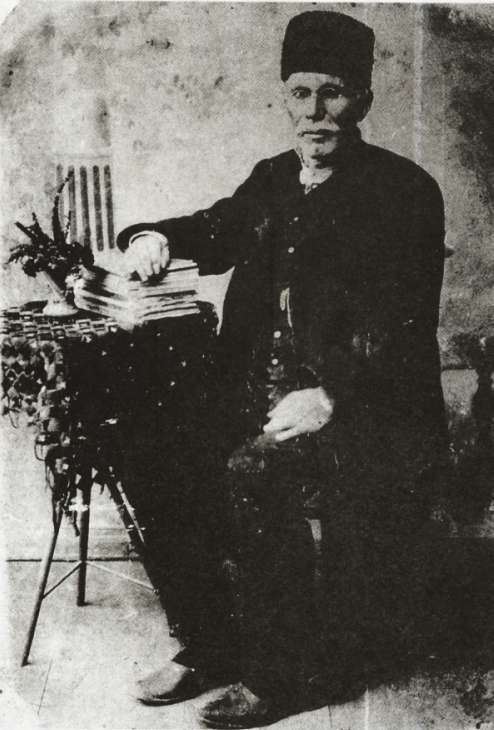 Marko Cepenkov (1829 - 1920), Bulgarian folklorist